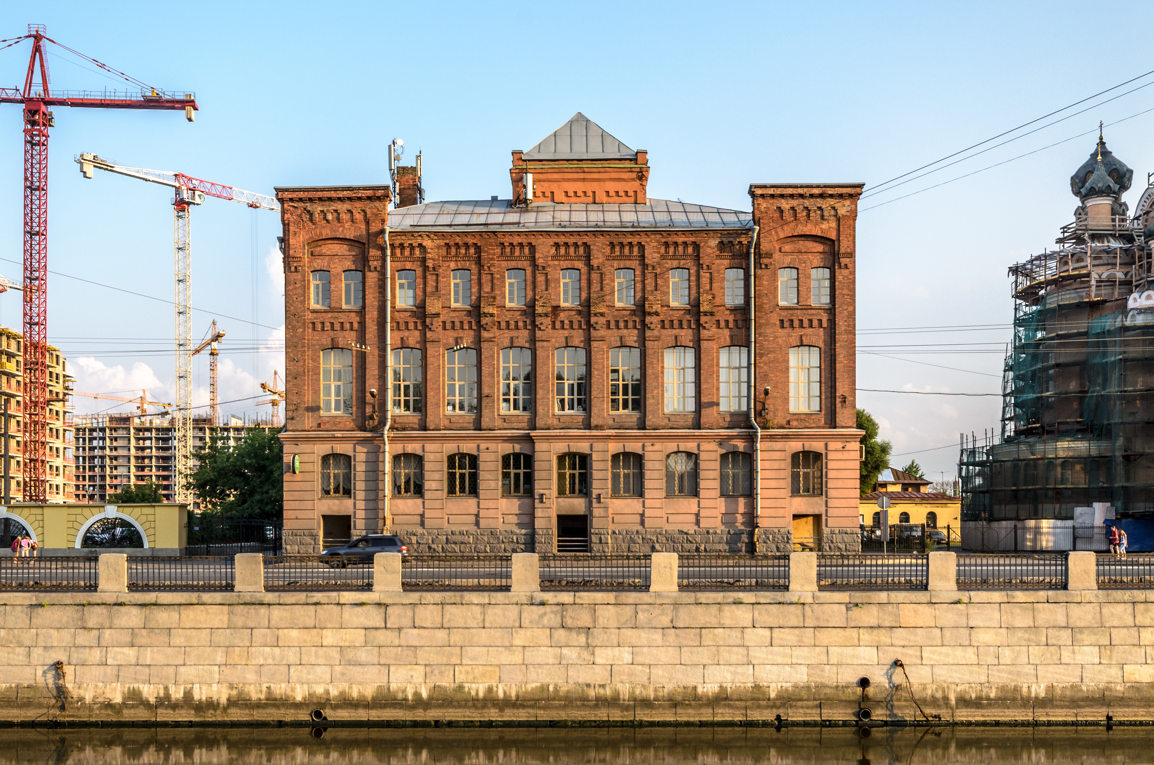 Oktyabrskaya Railway Museum Building at Obvodny Canal in Saint Petersburg